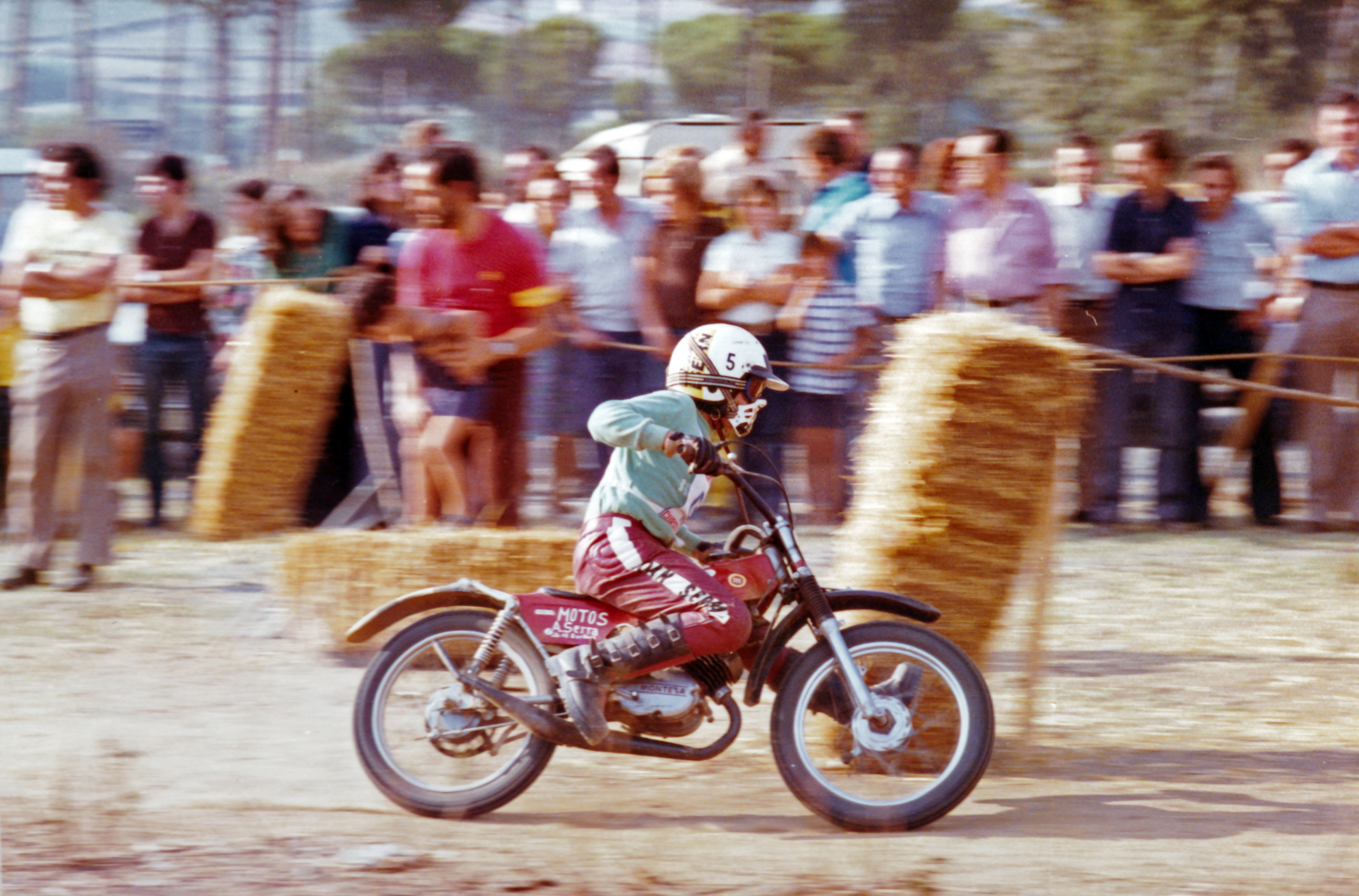 Joan Serra at the motocross race in a children motorcycle course held by MC Mollet in La Roca del Vallès in September 1975